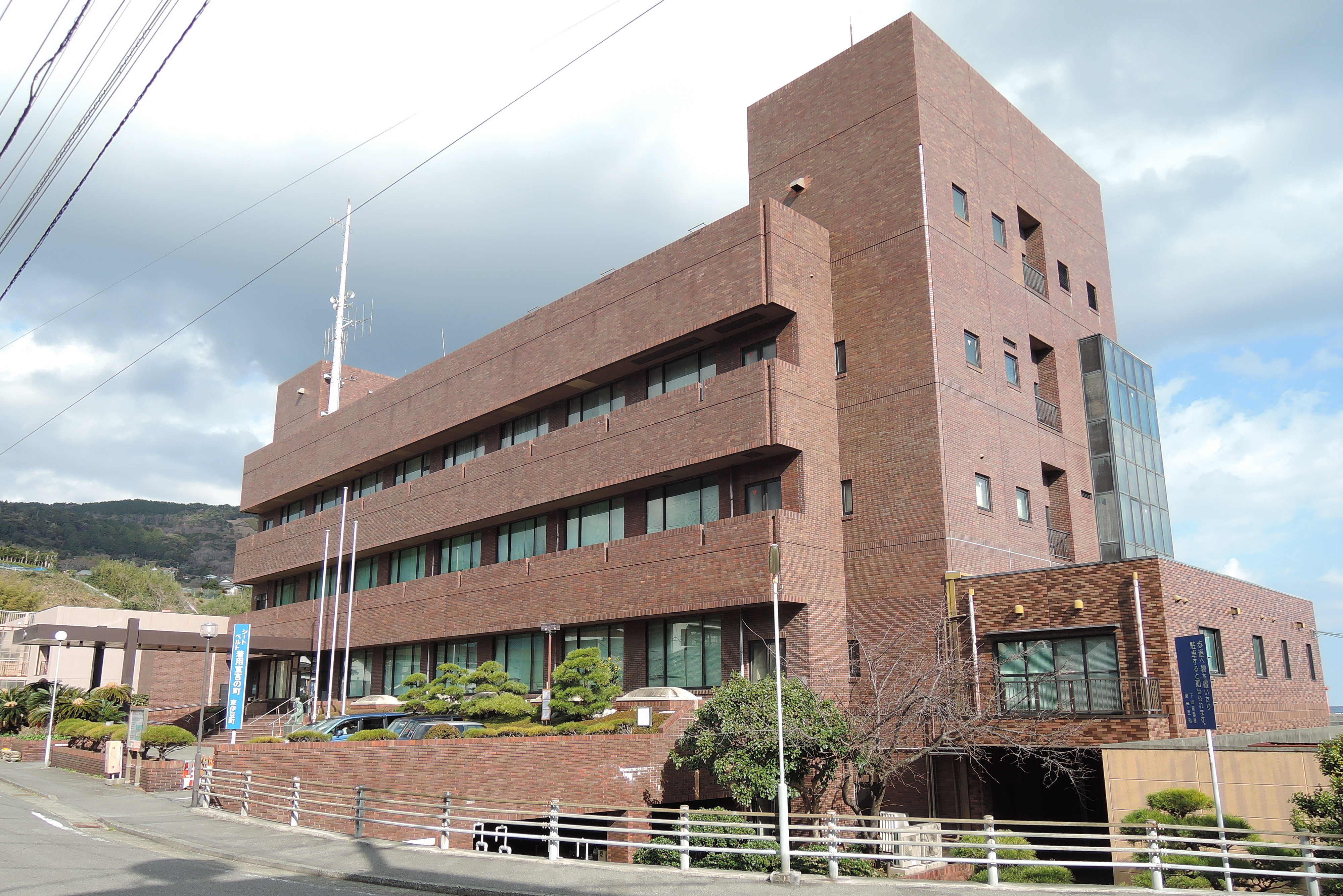 Higashiizu town hall,Shizuoka prefecture,Japan